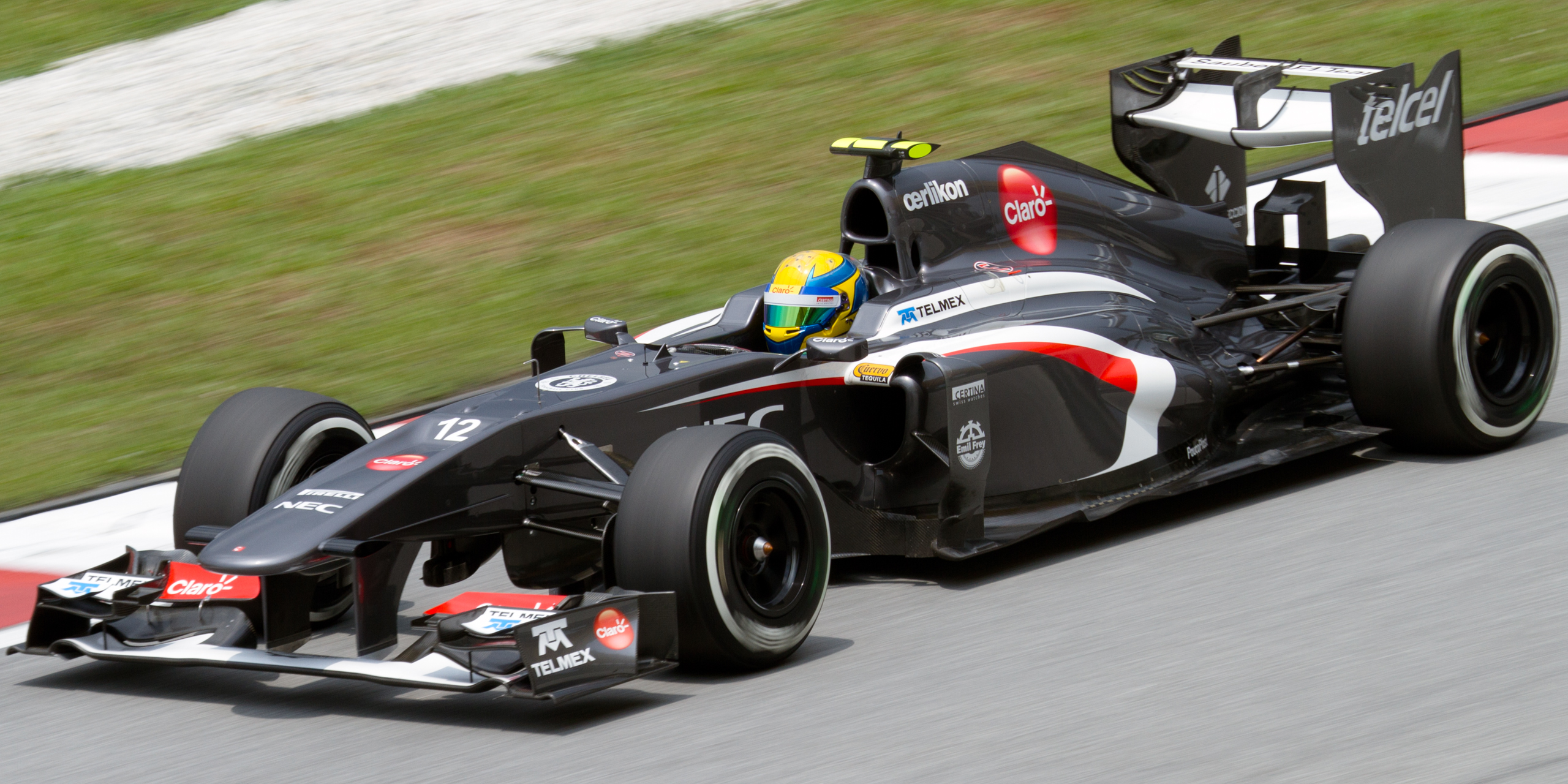 Formula One 2013 Rd.2 Malaysian GP: Esteban Gutiérrez (Sauber) during the second practice session on Friday.